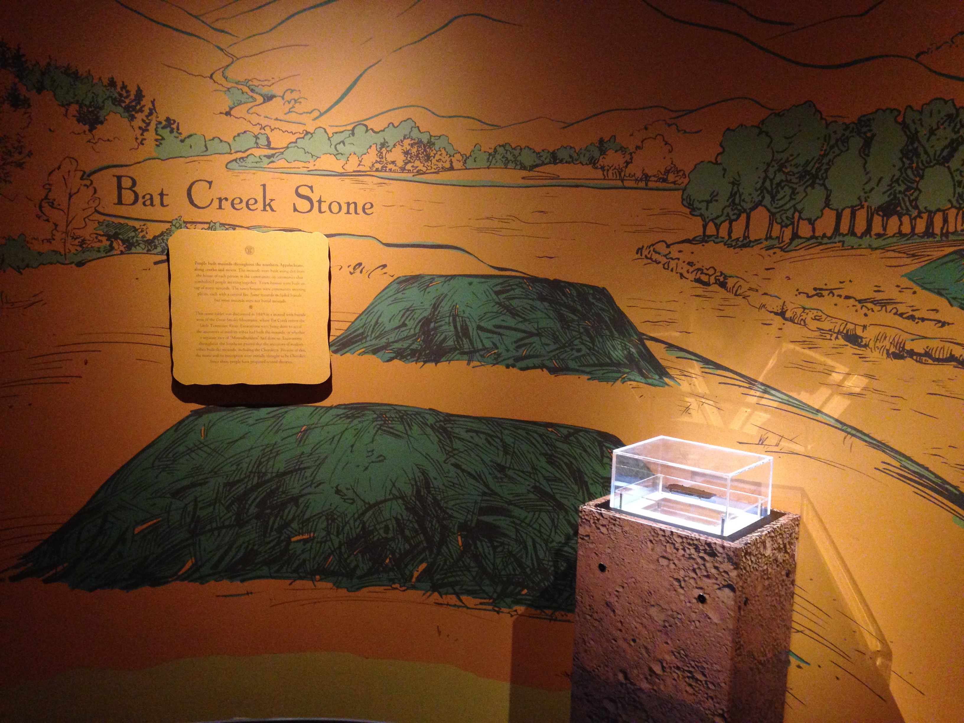 The Bat Creek Stone on display at the Museum of the Cherokee Indian, Cherokee NC, April 18, 2016.